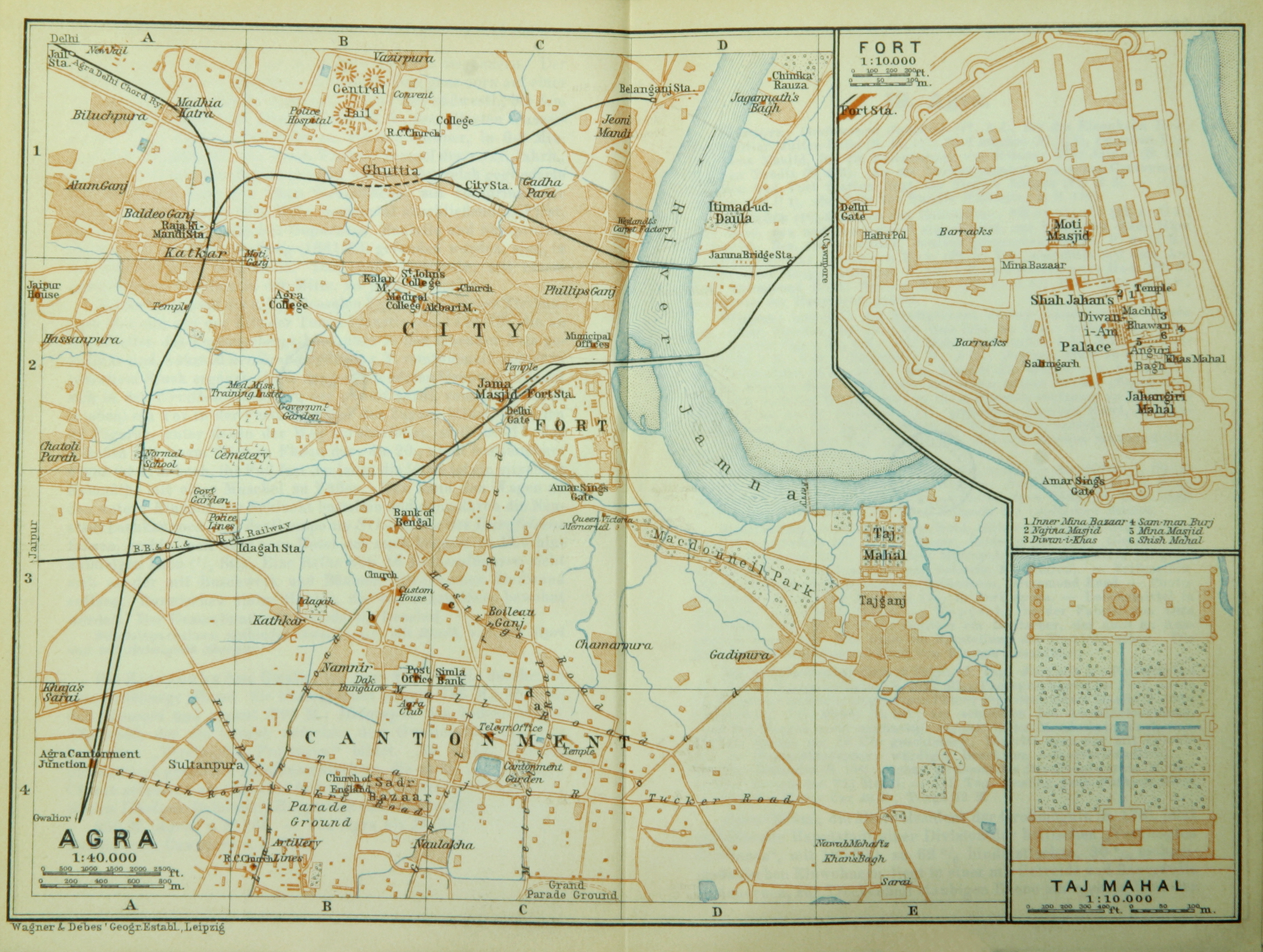 Map of the city of Agra, ca 1914 (1:40,000). Labelled in English.